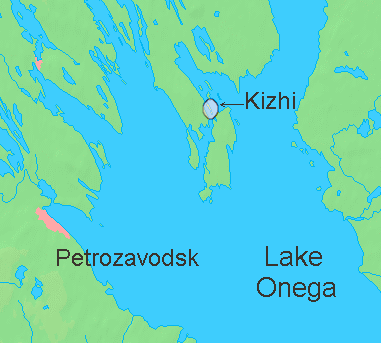 Lake Onega in Russia with Kizhi island marked